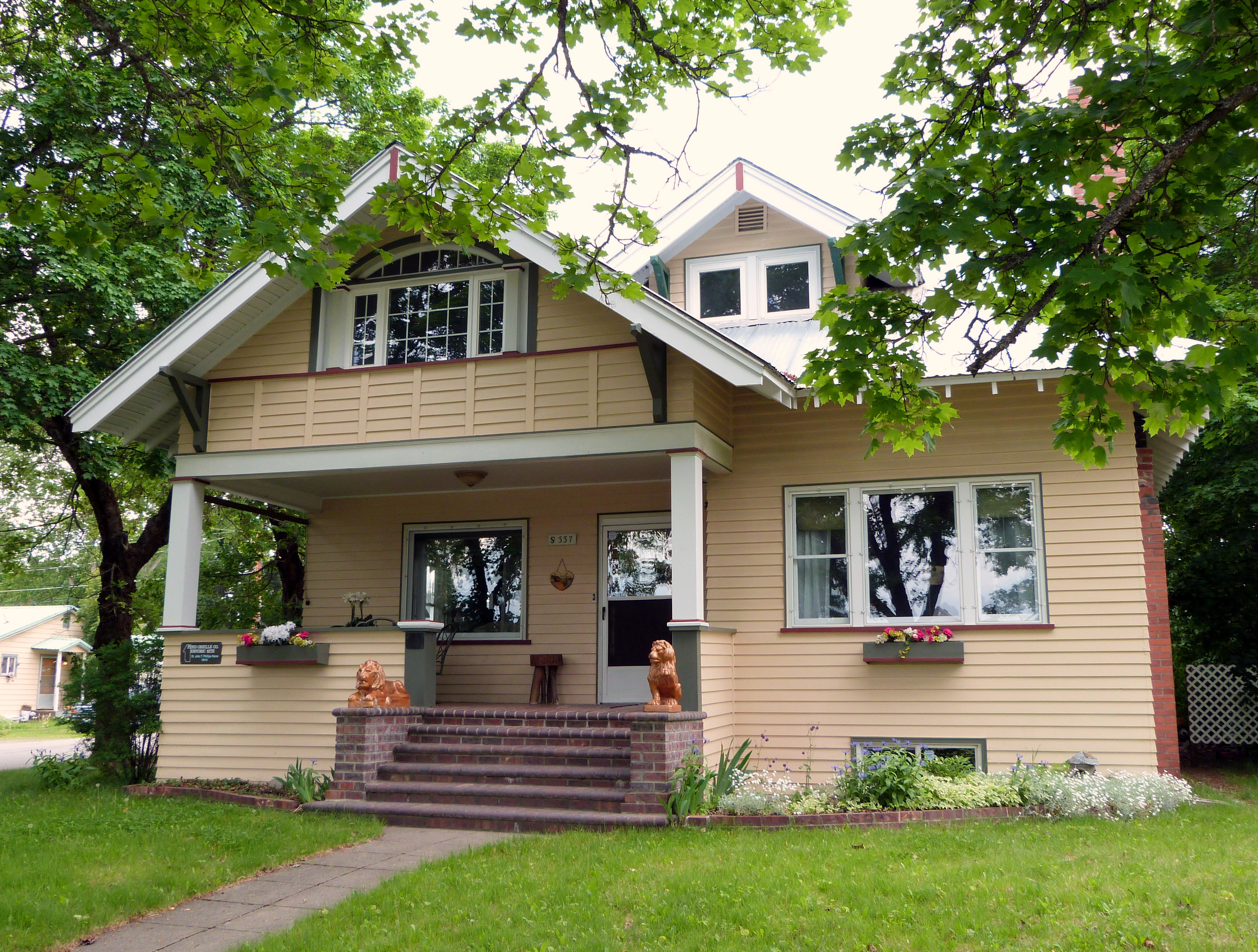 The historic Dr. John and Viola Phillips House and Office (built 1914), located at South 337 Spokane Avenue in Newport, Washington, United States, is listed on the US National Register of Historic Places.